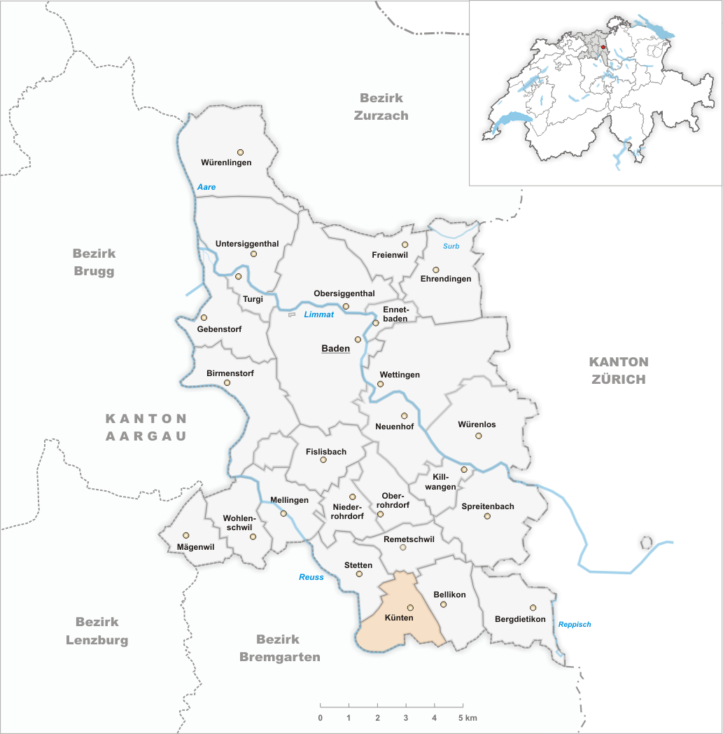 Municipality Künten